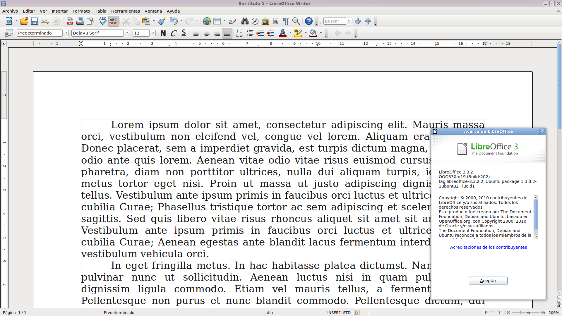 LibreOffice Writer 3.3.2 sampling lorem ipsum with DejaVu Serif font